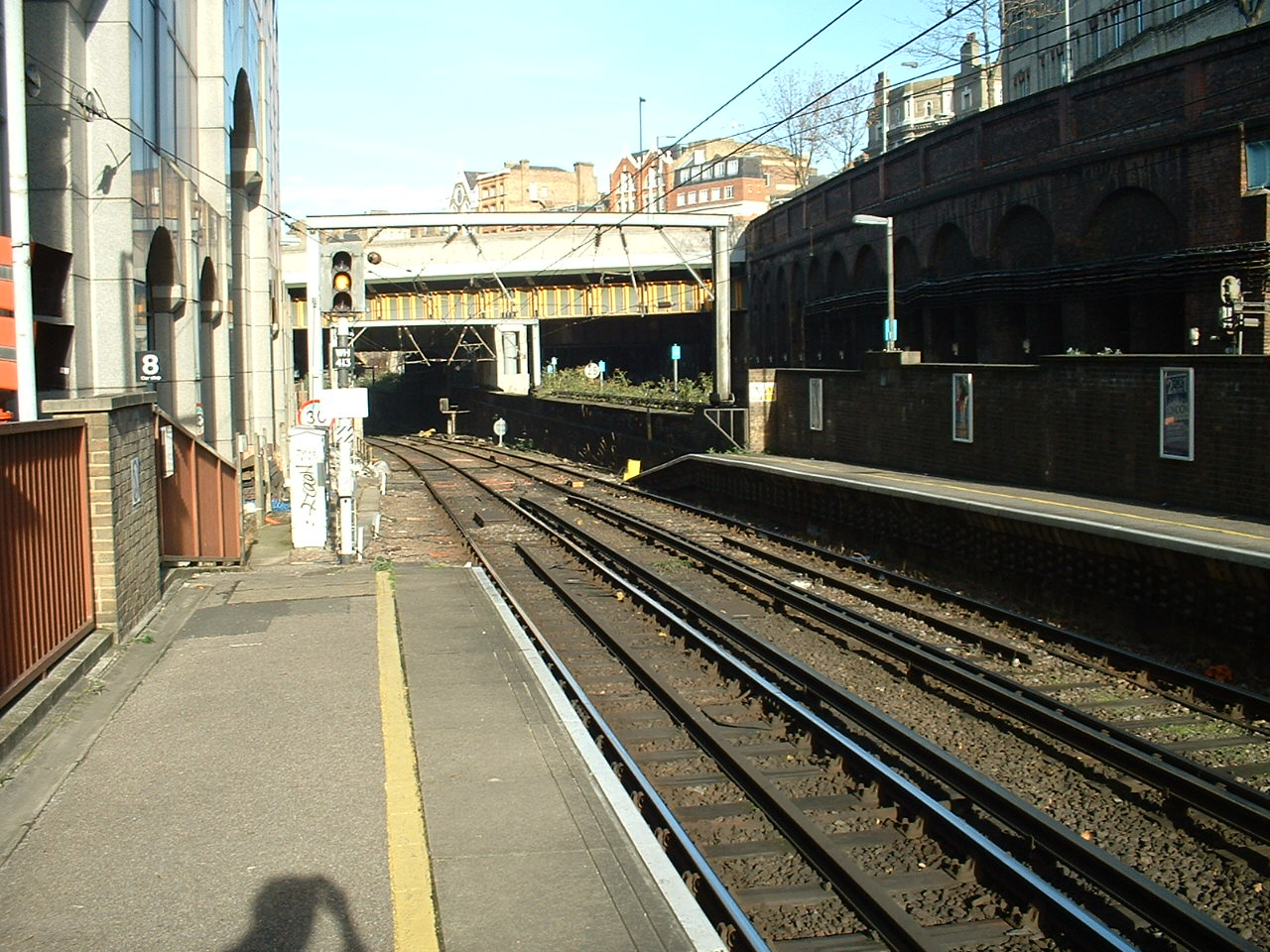 Northern limit of the third rail on Thameslink, at the northern end of Farringdon station. Changeover to AC takes place here.